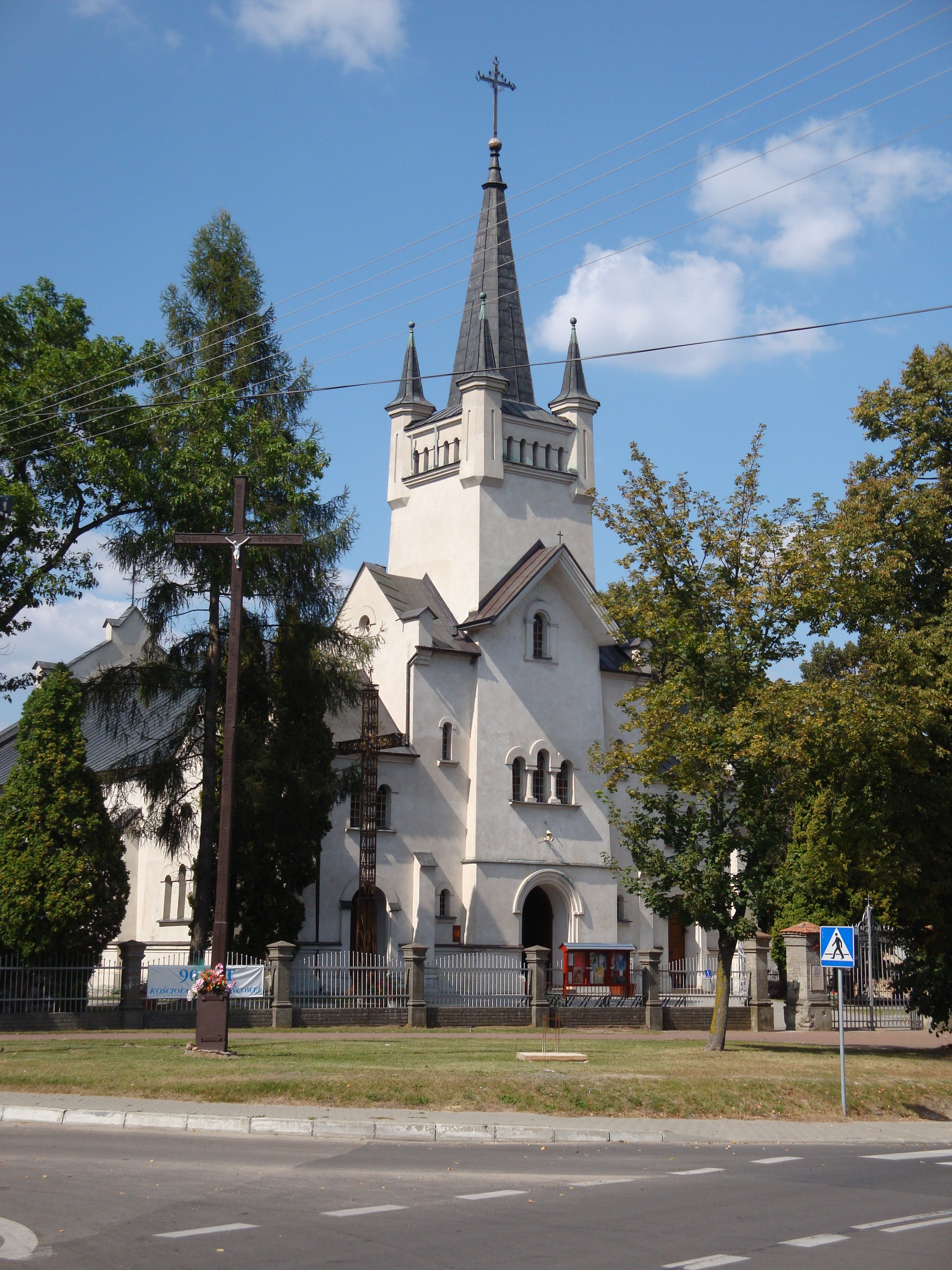 Church in Sławatycze, Poland